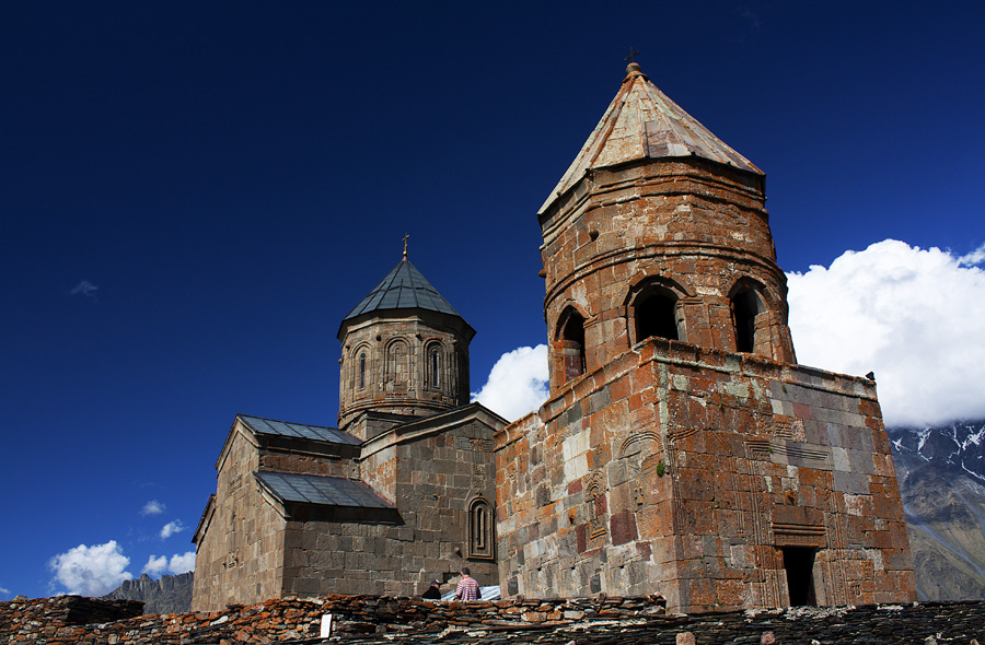 Khevi, Georgia — Gergeti Trinity Church